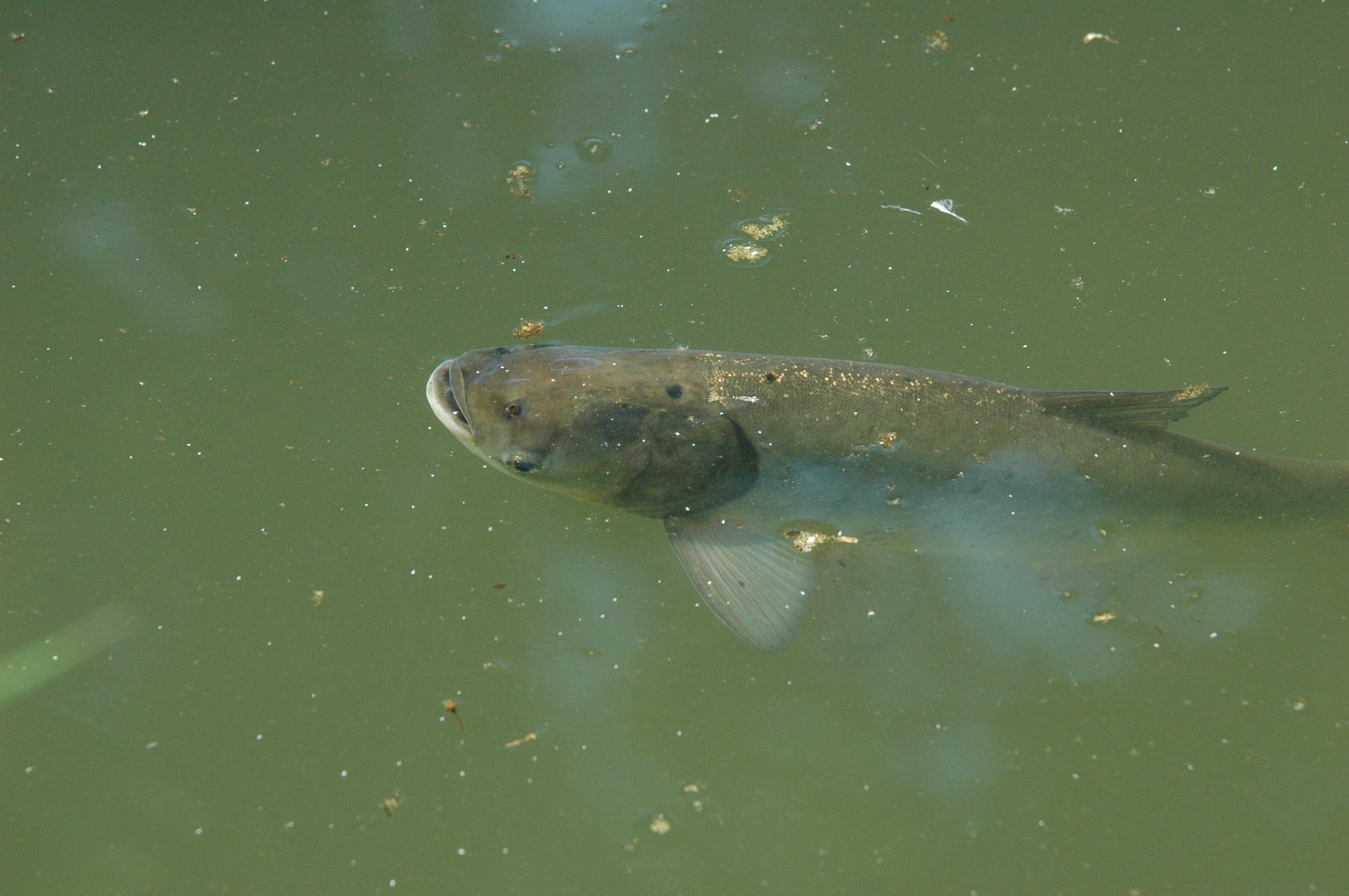 Silver carp